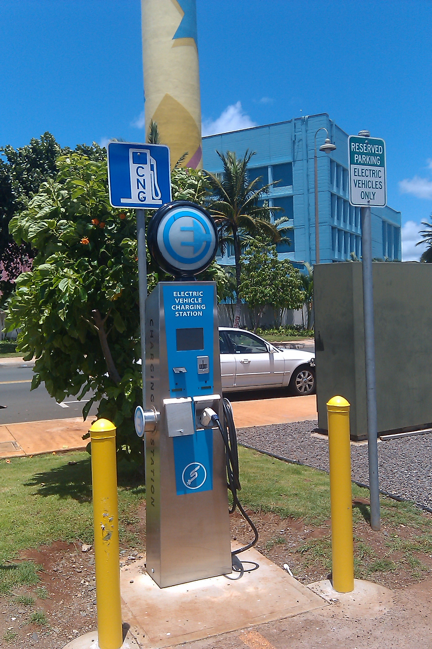 An electric car charging station in Kaka'ako, Honolulu, Oahu, Hawaii.